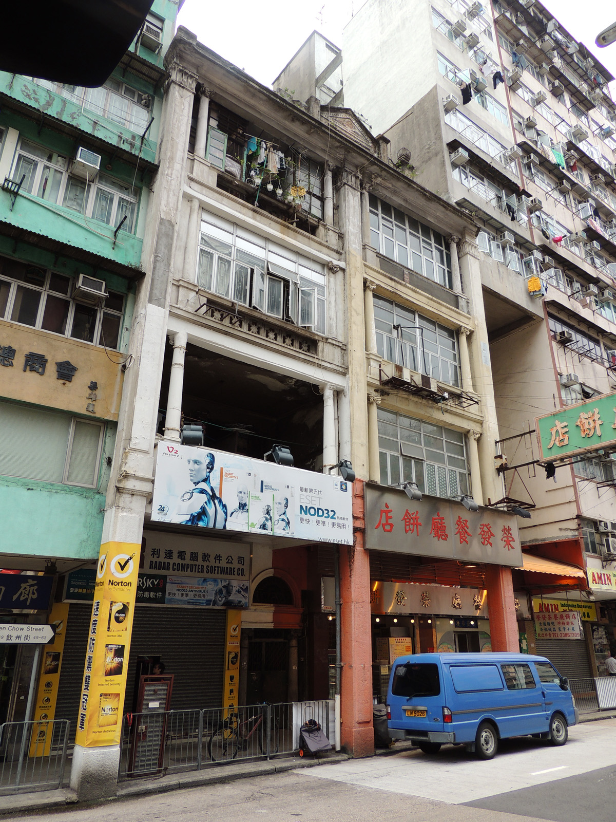 No. 51 Yen Chow Street, Sham Shui Po